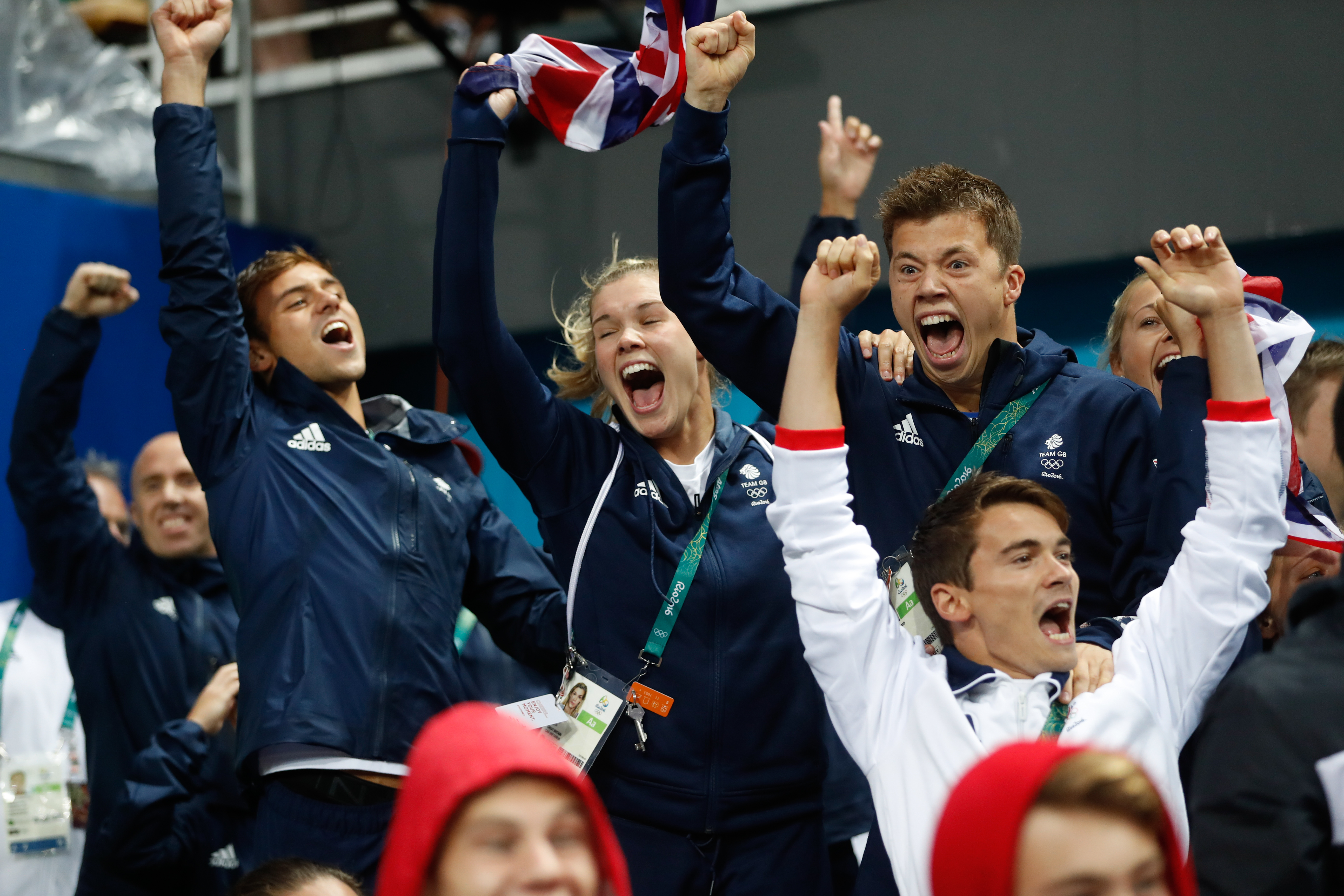 British divers Tom Daley, Alicia Blagg, Freddie Woodward, and (foreground) Daniel Goodfellow cheer upon learning that teammates Jack Laugher and Chris Mears have just won the gold medal in synchronised springboard diving, at the 2016 Summer Olympics, in Rio de Janeiro.